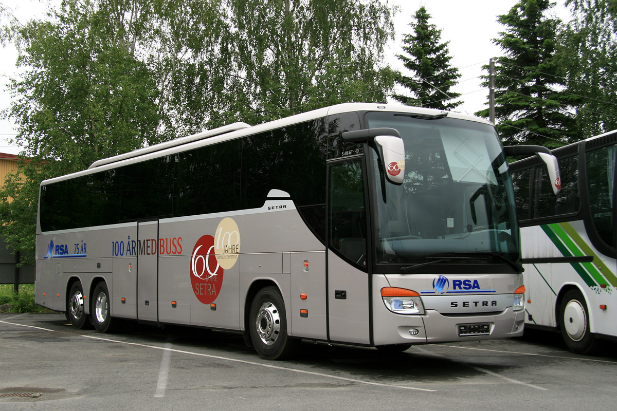 2011 Setra S 416 GT-HD demonstrator celebrating 75 years for RSA (the Norwegian distributor), 60 years for Setra buses and 100 years for Karl Kässbohrer Fahrzeugwerke as a bus manufacturer.